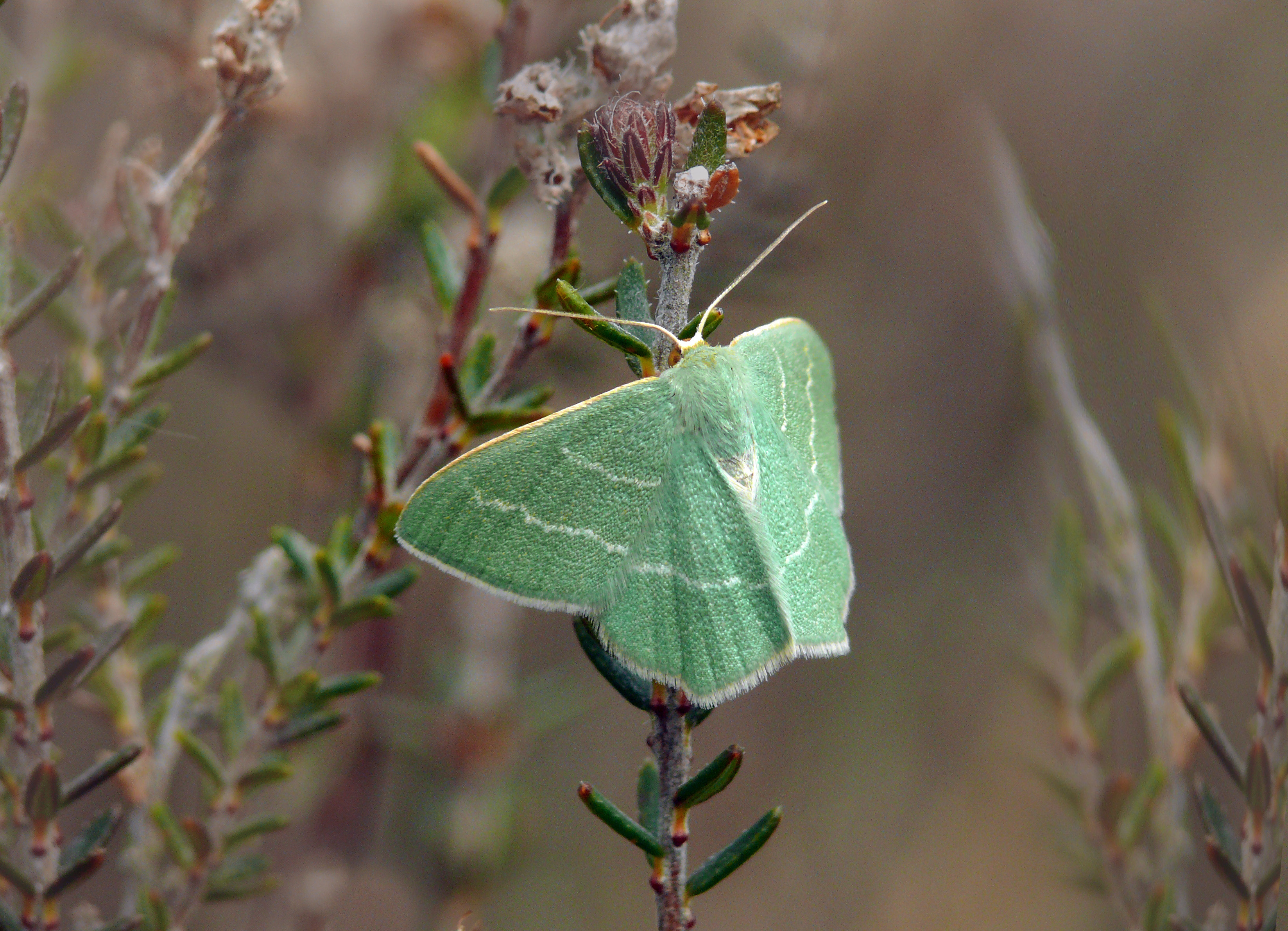 New Forest, Hampshire. This species has the rather annoying habit of partly wrapping its wings around its perch making photography even more of a challenge!